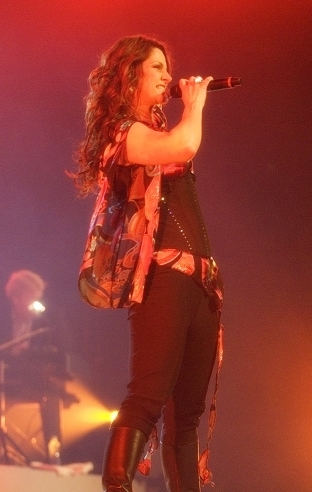 Jenny Berggren from Ace Base Performing Live